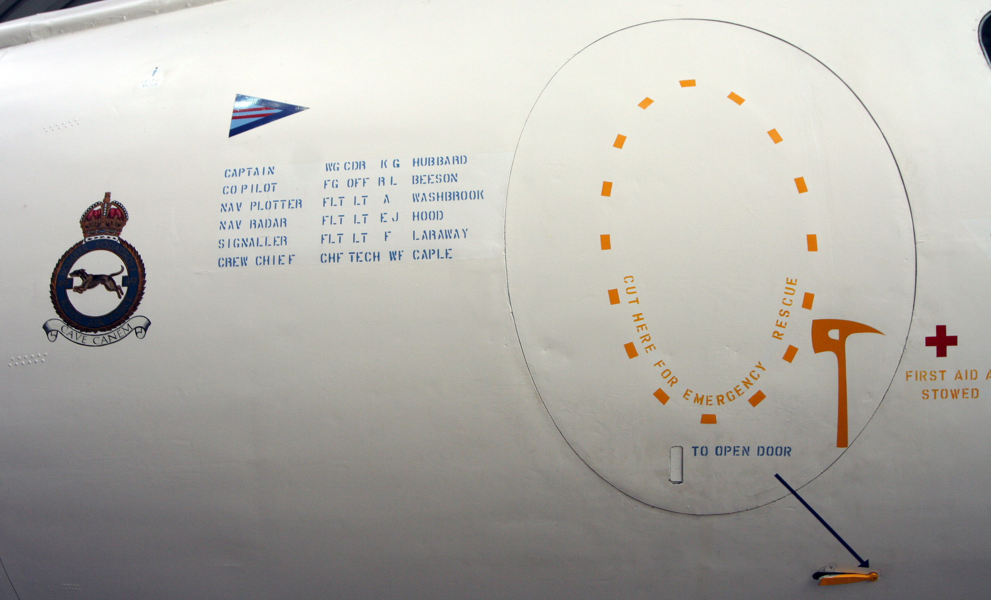 Vickers Valiant B1 RAF XD818 C/N 7894M You can pull to open the door or you can just use an axe.